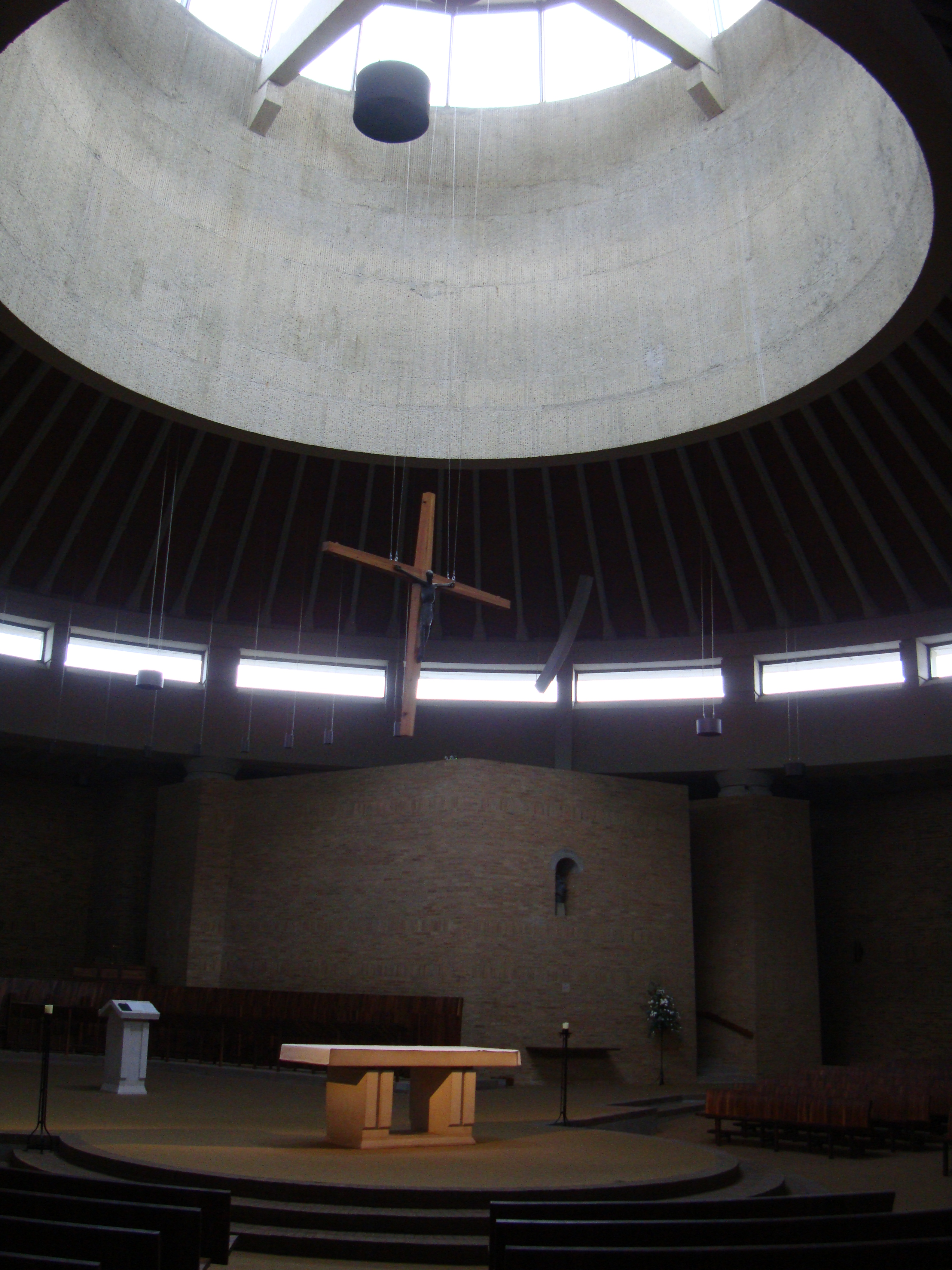 Interior of Our Lady Help of Christians church, Worth Abbey, West Sussex